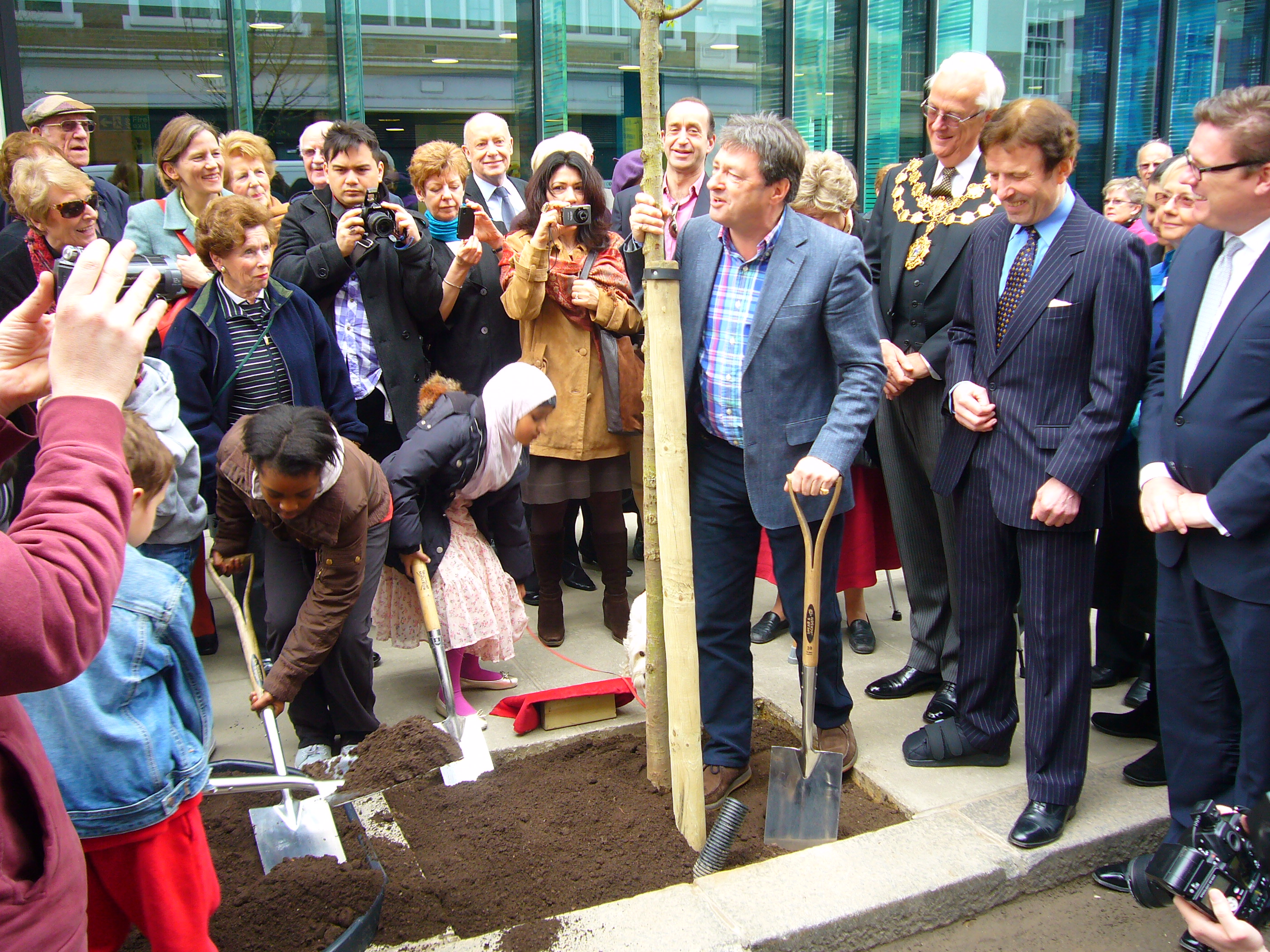 Much to the delight of locals and as part of the W1W Tree Planting Initiative, Alan Titchmarsh, MBE, celebrity broadcaster and gardening expert, planted an elm tree to mark the arrival of 48 trees in Bolsover Street. This marked the completion of efforts by the Initiative to ‘green’ this historic street and return elm trees to the neighbourhood.